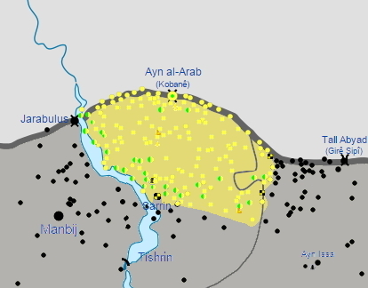 Map of the Kobanî Canton on April 29, 2015, after the Siege of Kobanî. The siege of the Canton had largely ended nearly a week earlier, and YPG-led forces broke through ISIL defense lines in the city of Sarrin on April 25, bringing the Battle of Sarrin to the suburbs of the city itself. At this point, the YPG and FSA forces had recaptured 339 of the 350 villages in the Kobanî Canton from ISIL, with 10 villages remaining under ISIL control in the Canton's eastern frontier, the city of Sarrin under ISIL control in the southern part of the Canton, and another nearby village under ISIL assault. Since the ISIL assault began in September 2014, ISIL had suffered nearly 5,000 casualties in clashes that the broke out in the Kobanî Canton, especially around the city of Kobanî and Sarrin.